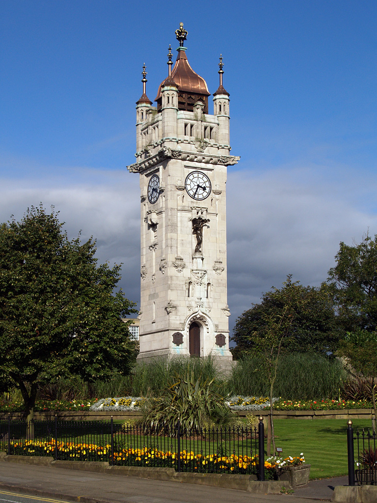 The Whitehead Clock Tower, after the restoration, located in Tower Gardens, Bury, Greater Manchester, England. The clock tower was designed by Maxwell and Tuke and was built in 1914.